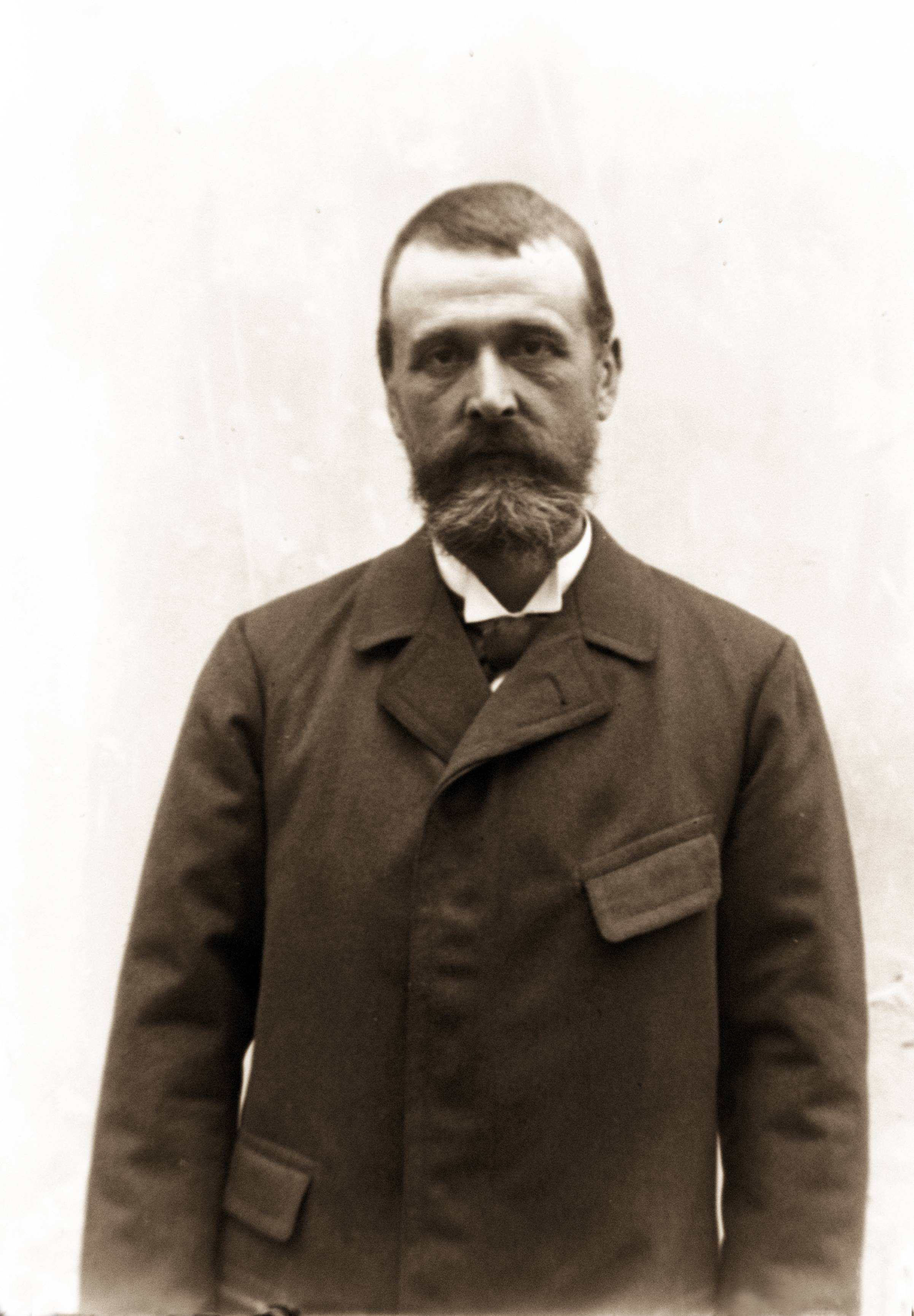 Self-portrait of Ambroz Haračić (1855-1916), at the age of 39.